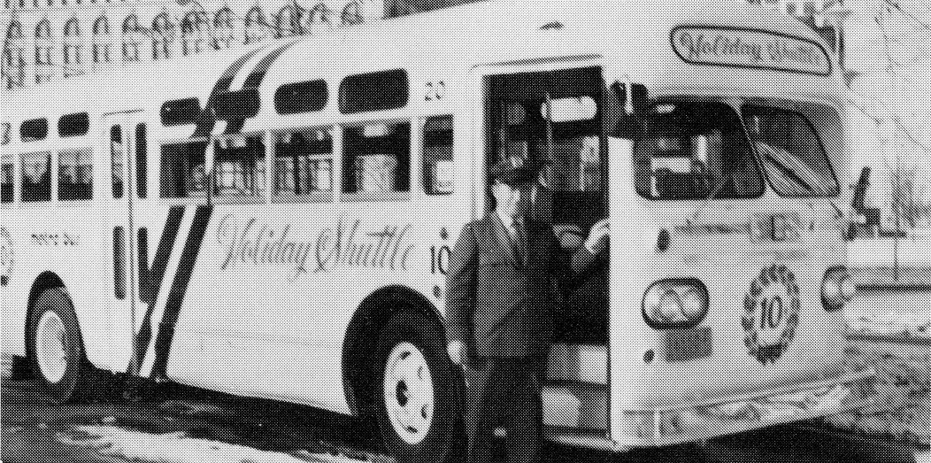 Photo from NFTA annual report. Original caption: "Downtown Christmas Holiday Shuttle Bus in Buffalo, N. Y."